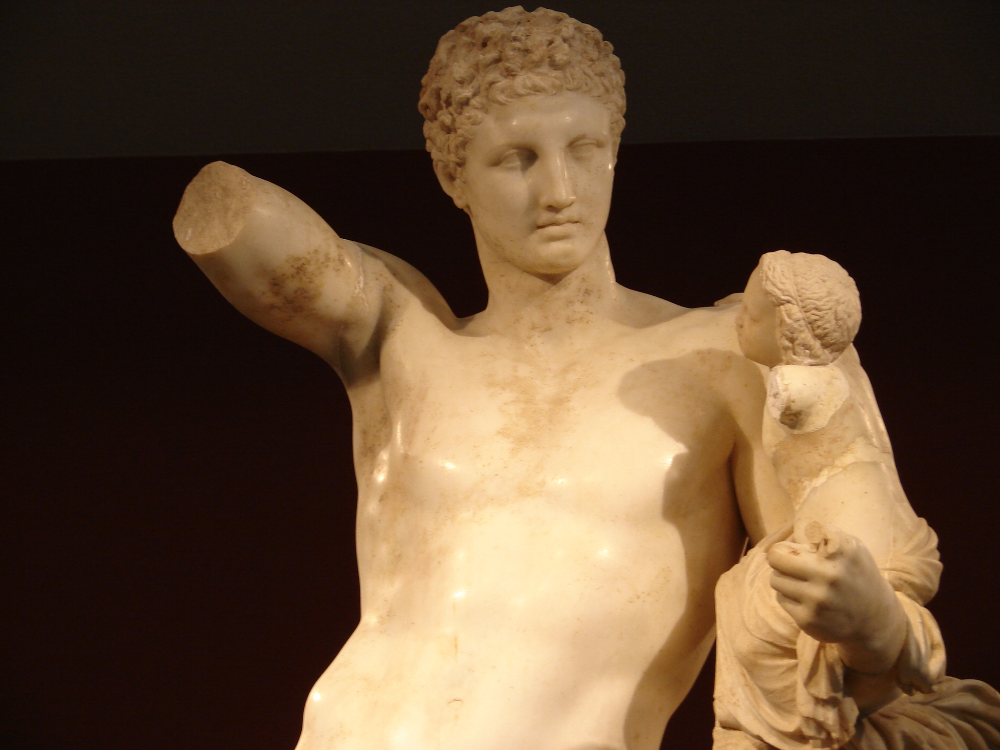 Hermes bearing the child Dionysos, by Praxiteles. Parian marble, H. 2.15 m (7 ft. ½ in.). Archaeological museum of ancient Olympia, Greece. From the German excavations of the Heraion at Olympia, 1877.